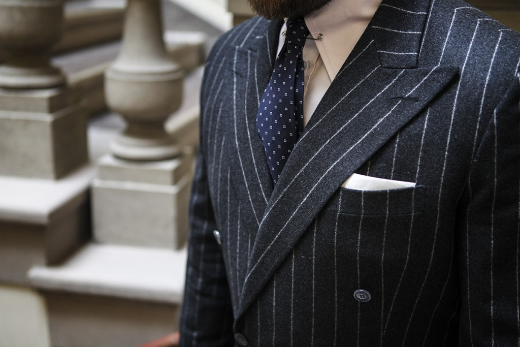 White pocket square, TV-fold.